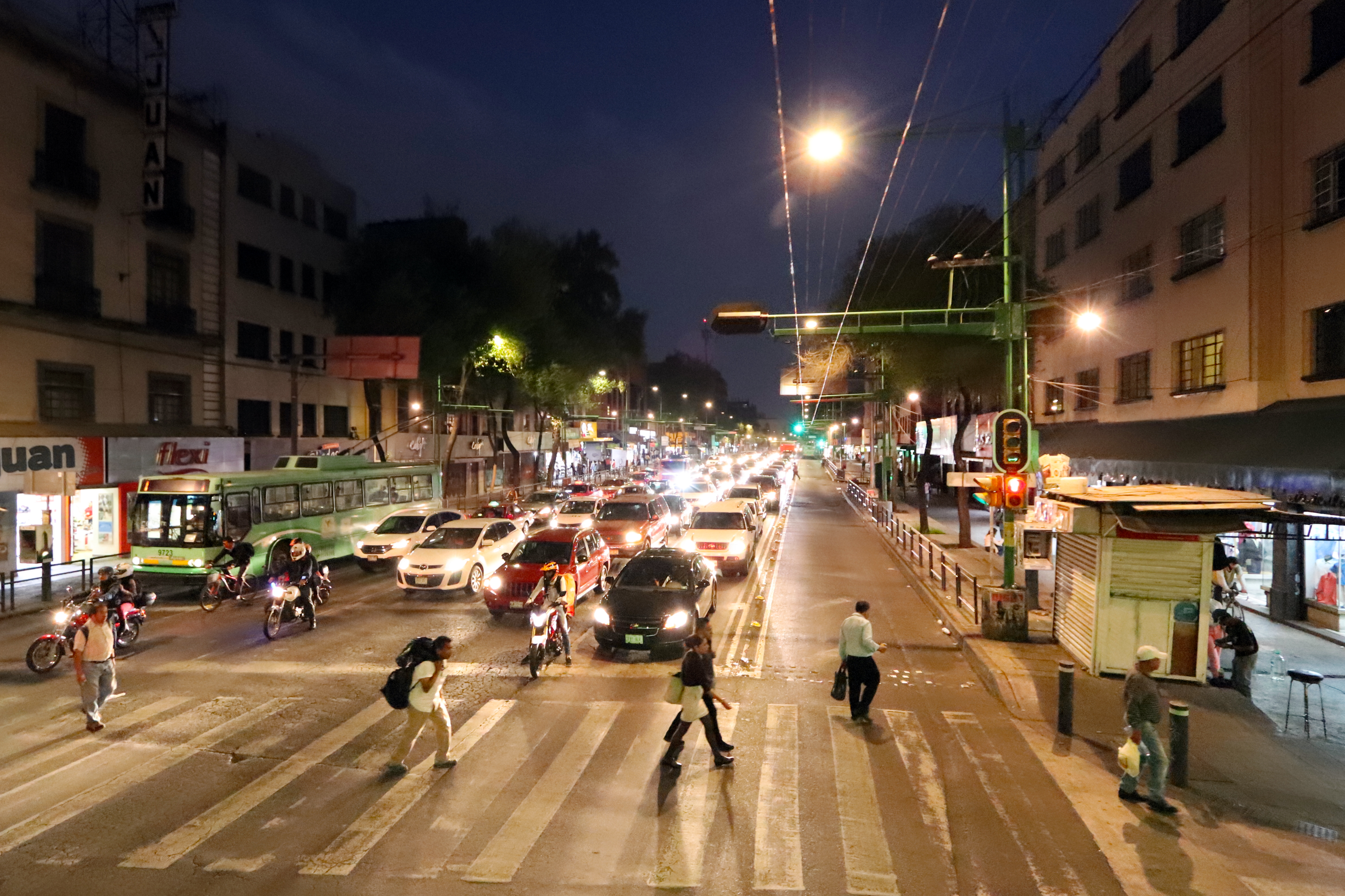 Eje Central Lázaro Cárdenas (Lázaro Cárdenas Central Axis) street is really important for daily transit in Mexico City. Picture shows an aspect of its central part, crossing with Ayuntamiento and República del Salvador Street.